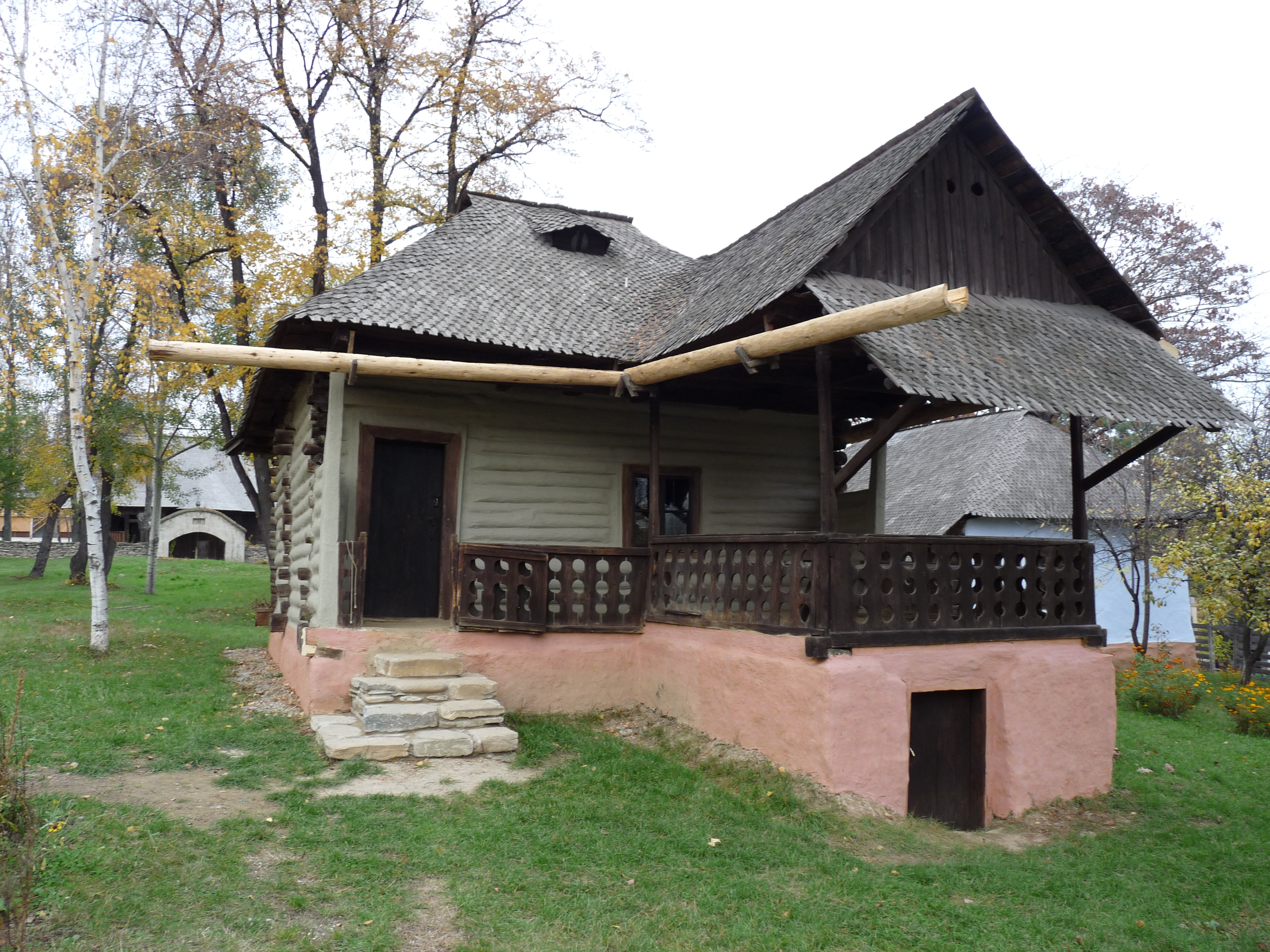 19th century household from Năruja, Vrancea County, Romania, exhibited at the Village Museum in Bucharest. Front.